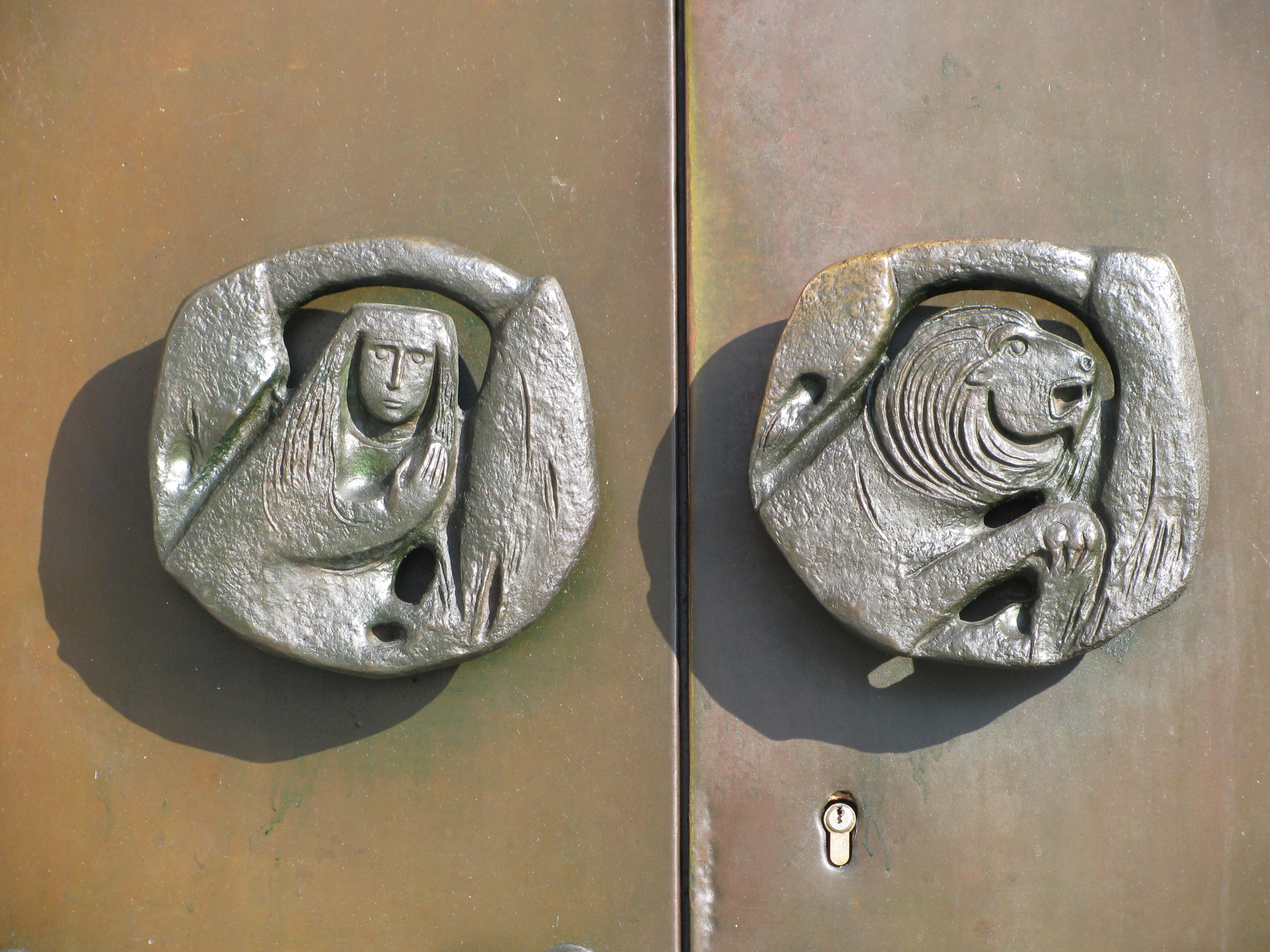 Germany - Baden-Württemberg - Bodenseekreis - Kressbronn am Bodensee: doorkonbs 'Maria Hilfe der Christen'-church by Hilde Broër (1904-1987)